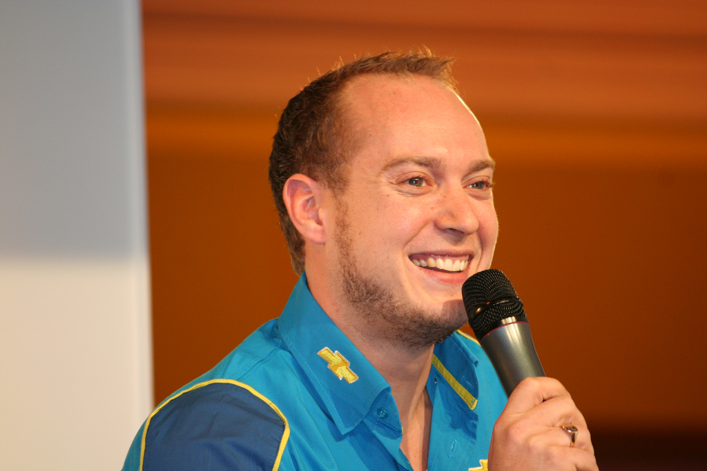 Rob Huff at Autosport International 2009